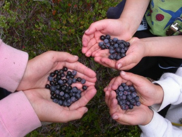 Vaccinium deliciosum fruits. National Forest Service photo, no copyright.